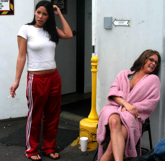 Haley Paige, Tory Lane On Set With Da Vinci Load From Hustler Video.